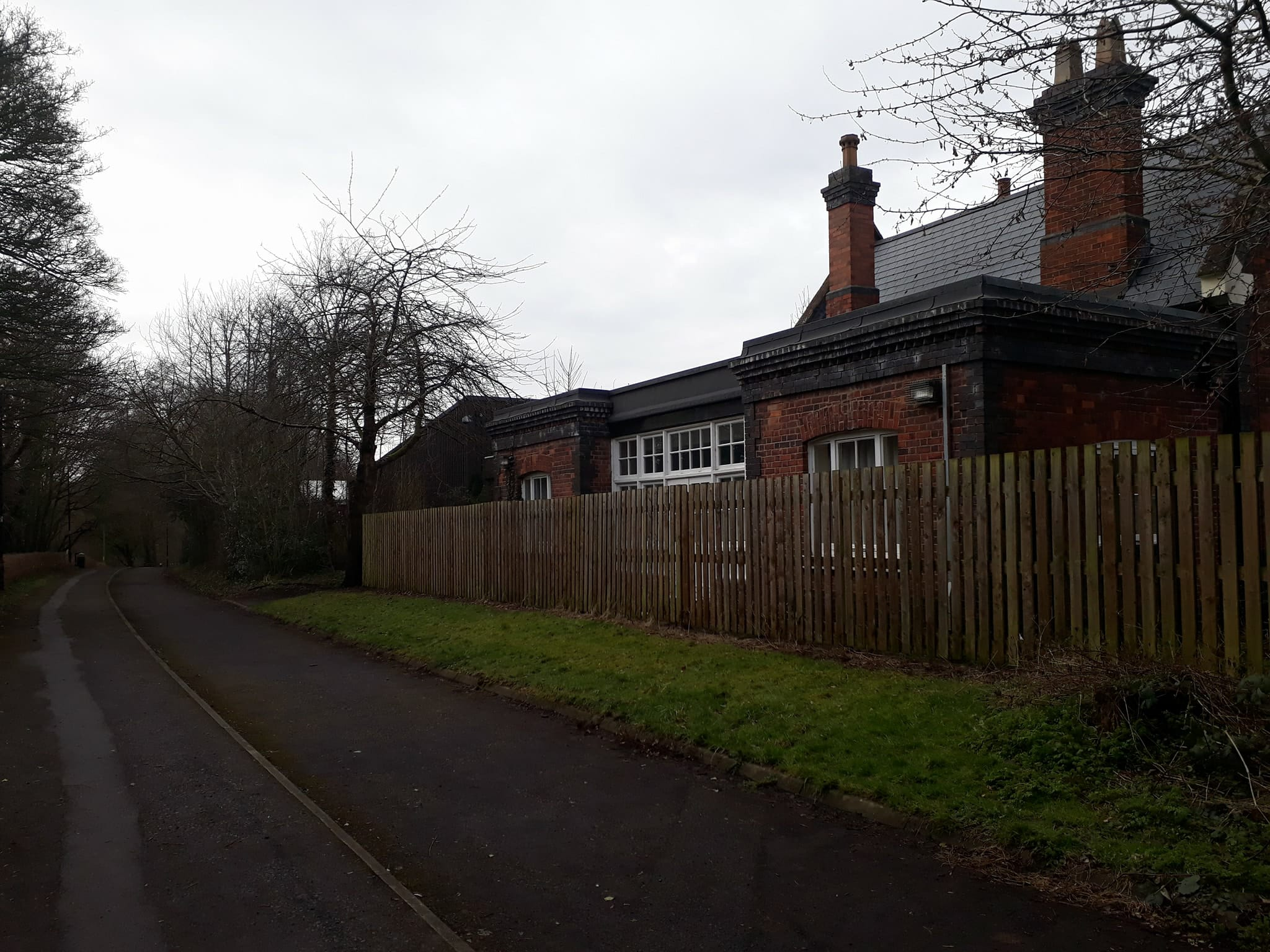 my own.